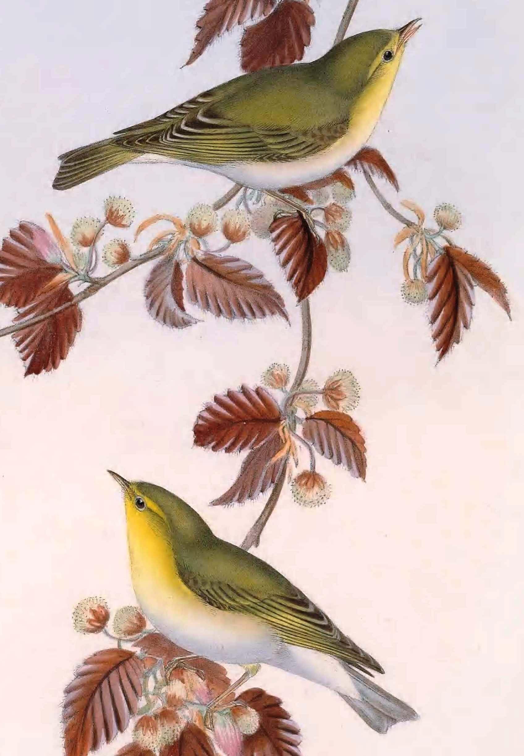 Phylloscopus sibilatrix. John Gould. The birds of Great Britain